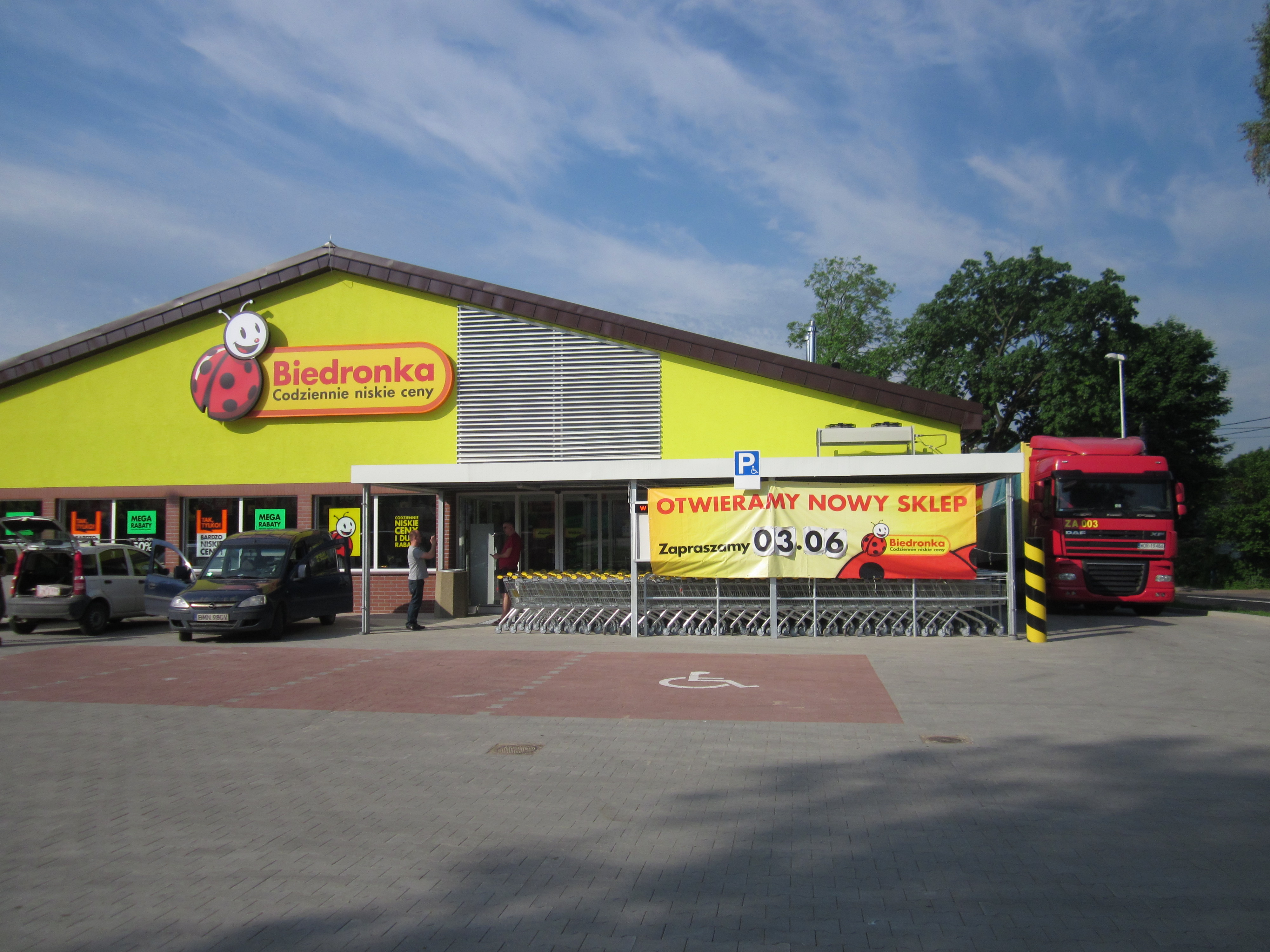 Supermarket in Białystok - Biedronka, at 66 Kawaleryjska street